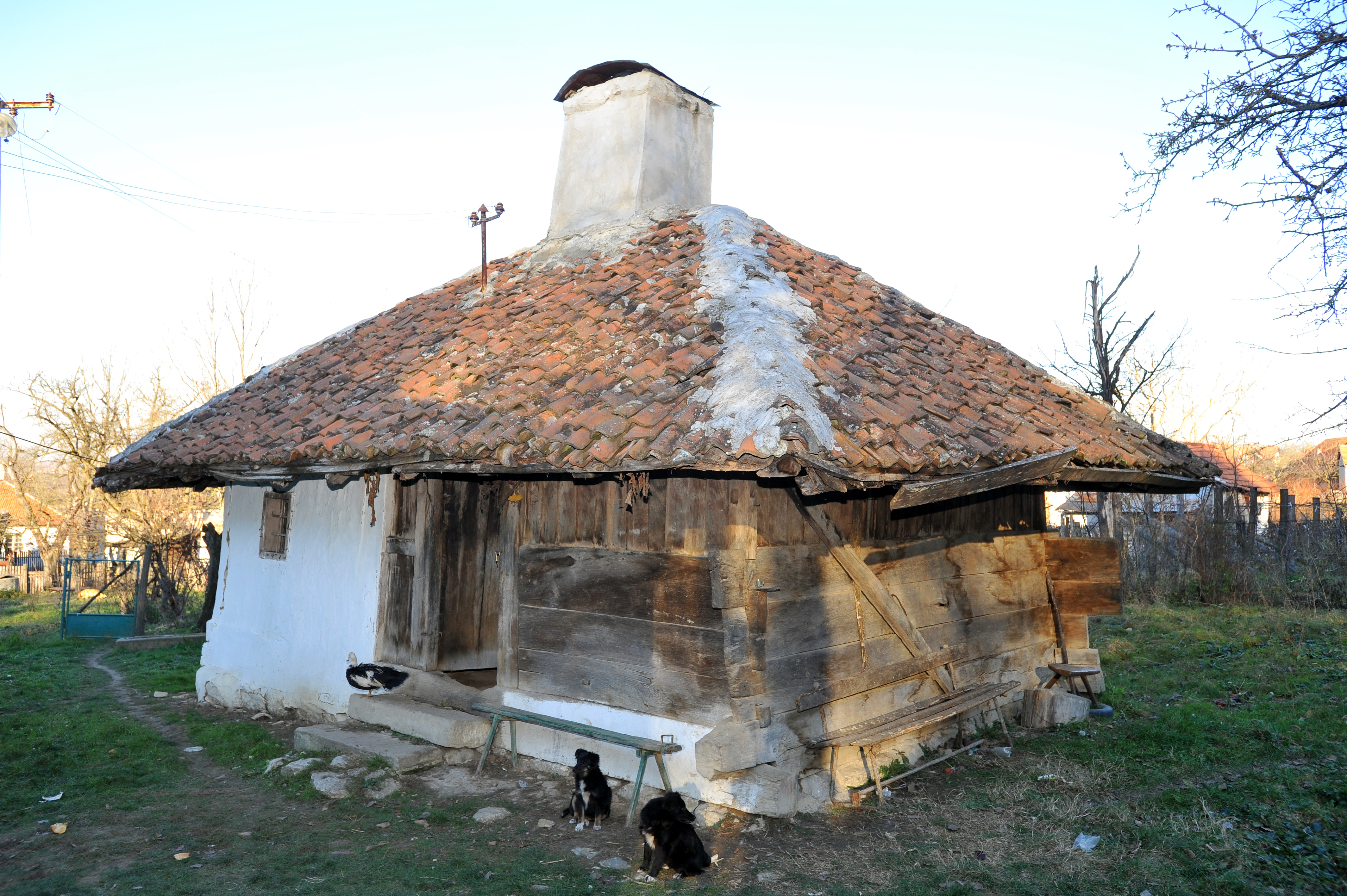 House of family Jovanović in Pepeljevac, Lajkovac